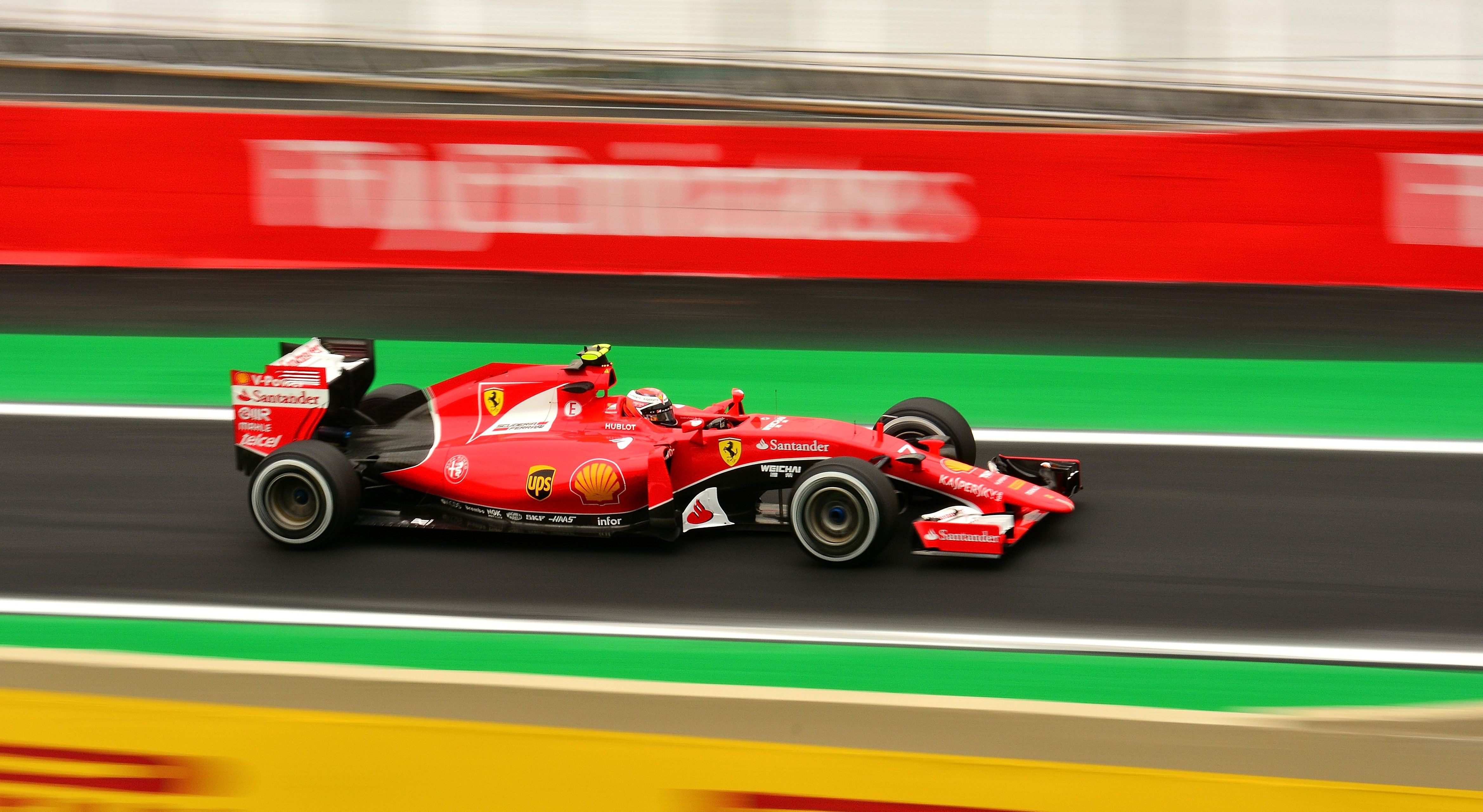 Kimi Räikkönen at the 2015 Brazilian Grand Prix